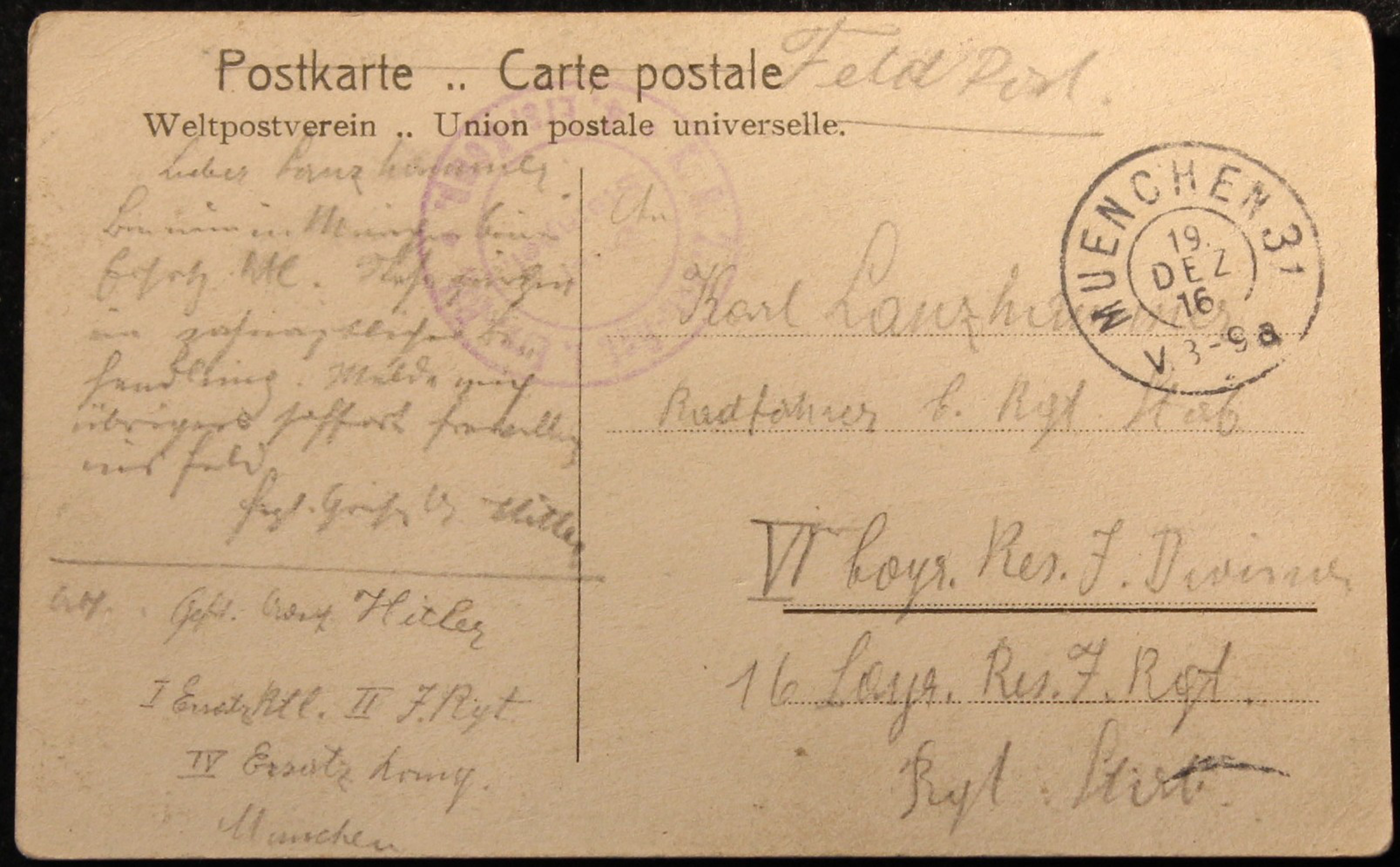 A previously unknown postcard from Adolf Hitler to Karl Lanzhammer. Found during Europeana 1914-1918's digitization efforts.